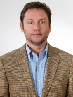 Pedro Pablo Álvarez-Salamanca Ramírez en la fotografía oficial de diputados periodo 2018-2022. (Fotos: Christel Andler, René Lescornez, Johanna Zárate)